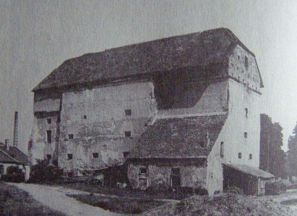 The Granary-church (hung. Magtártemplom) in Szentgotthárd